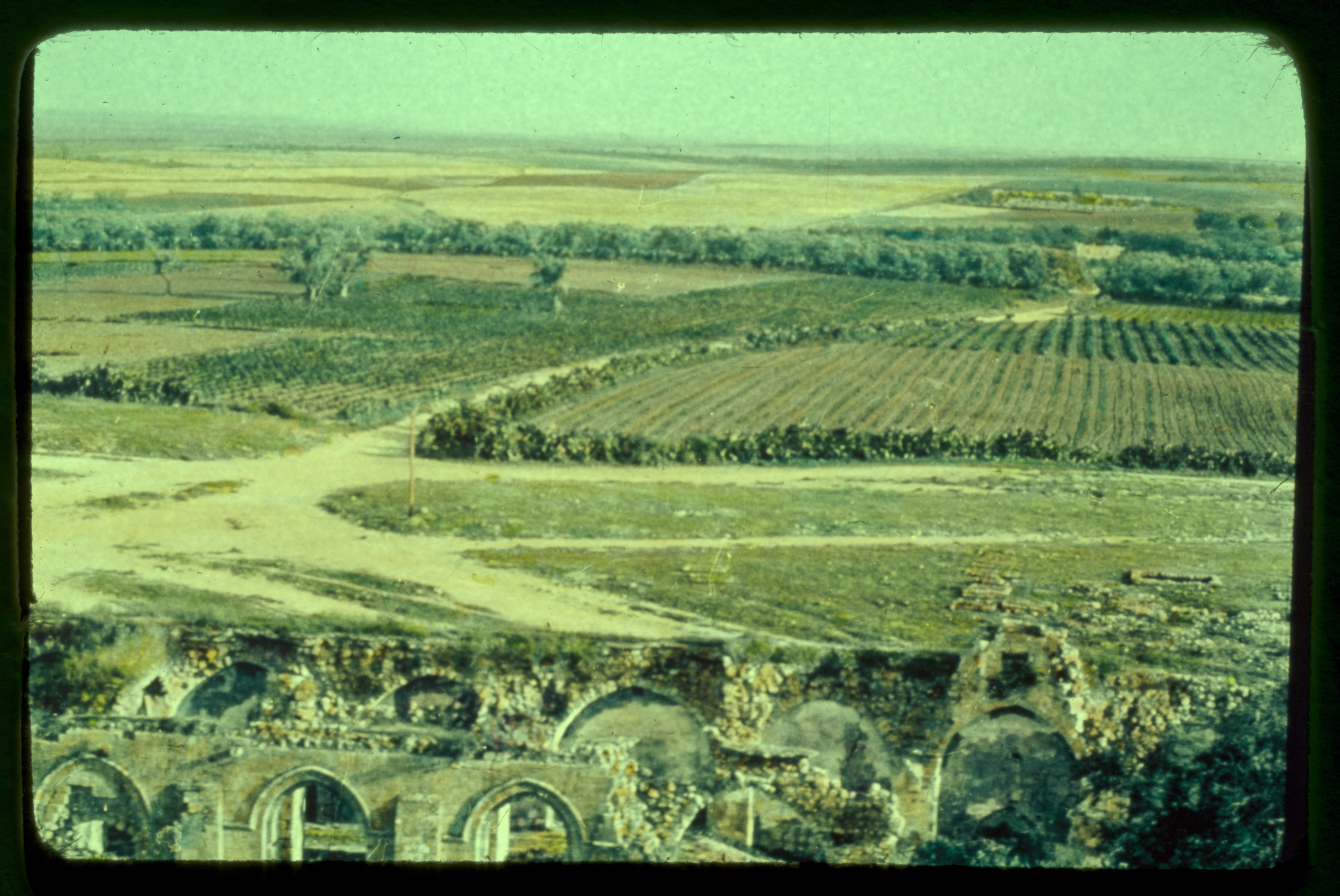 Title: Jaffa to Jerusalem. Plain of Sharon from the Tower of Ramleh Abstract/medium: G. Eric and Edith Matson Photograph Collection Physical description: 1 slide